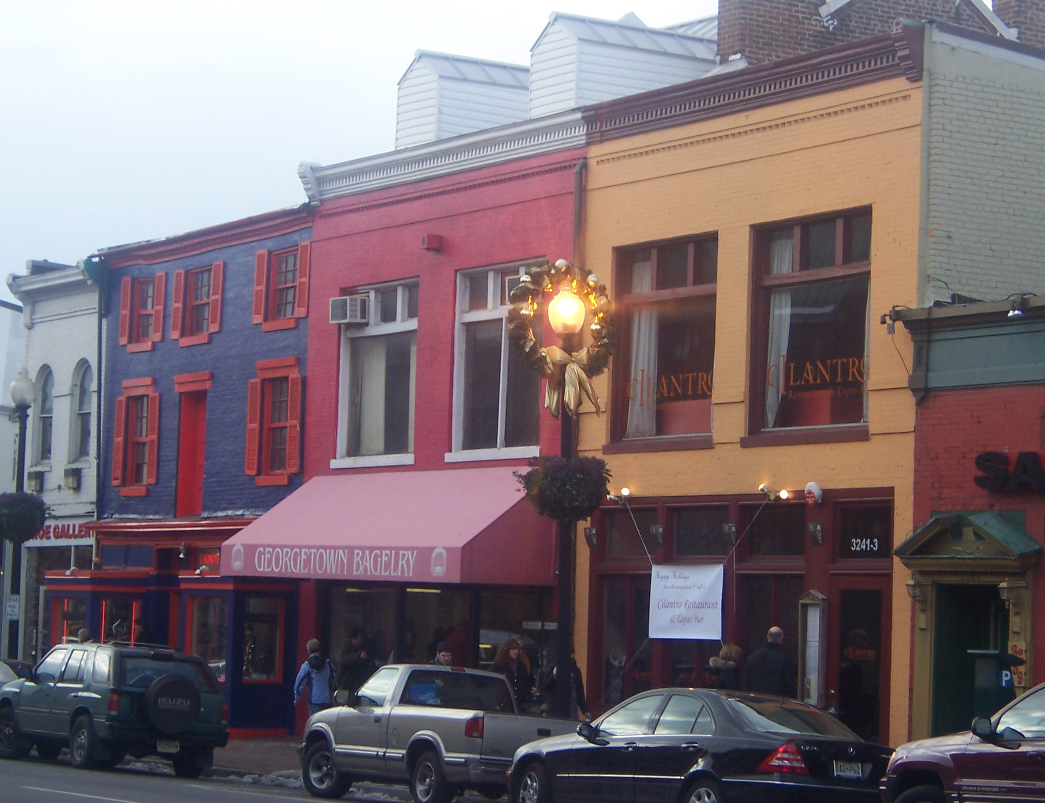 shops on m st in washington DC.